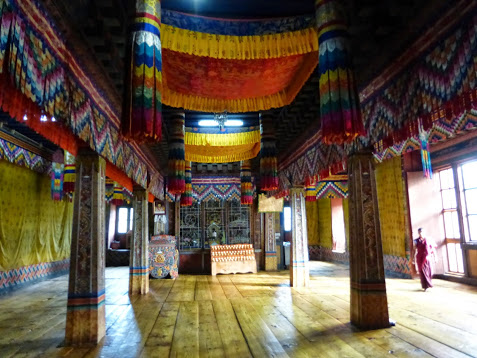 Iside Ripung Dzong (Paro, Buthan)